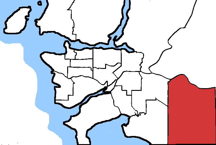 Map of the Langley electoral district. Based on Earl Andrew's maps, created by SimonP.